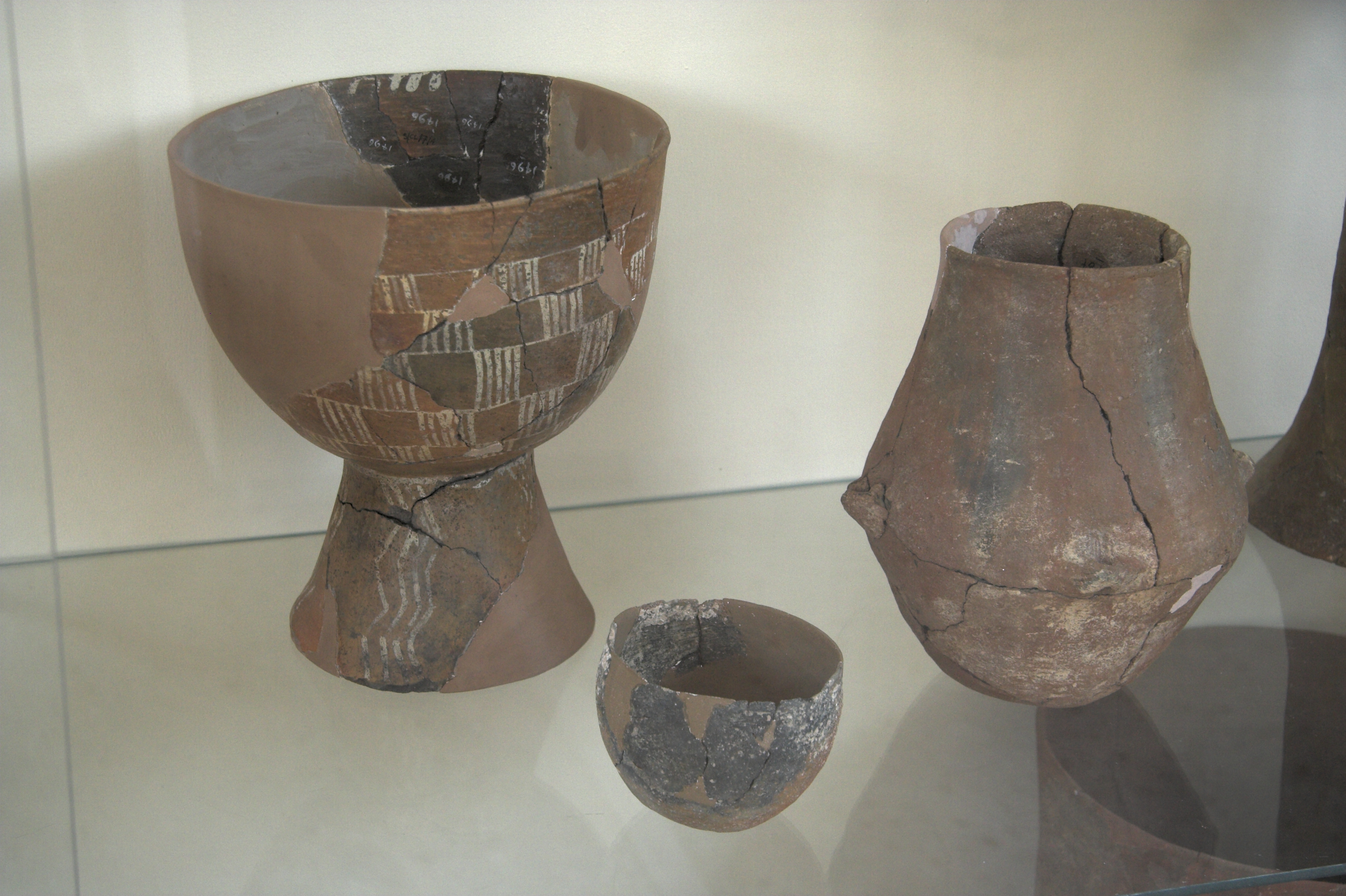 Vessels. Late Neolithic settlement Saliagos (islet between the Paros and Antiparos), 4th millenium BC. Archaeological museum of Paros.